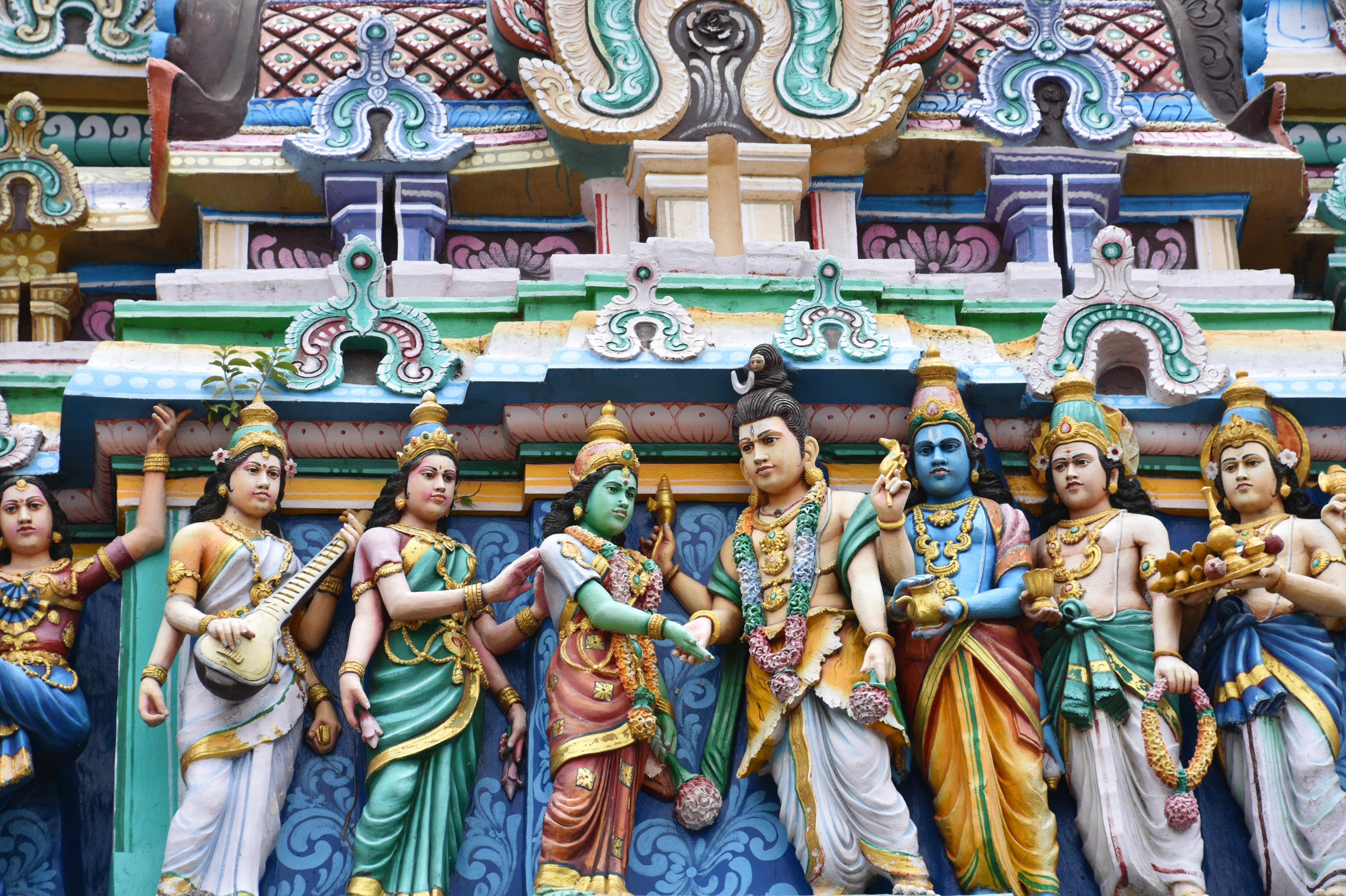 Hindu temple, Shaivism, India